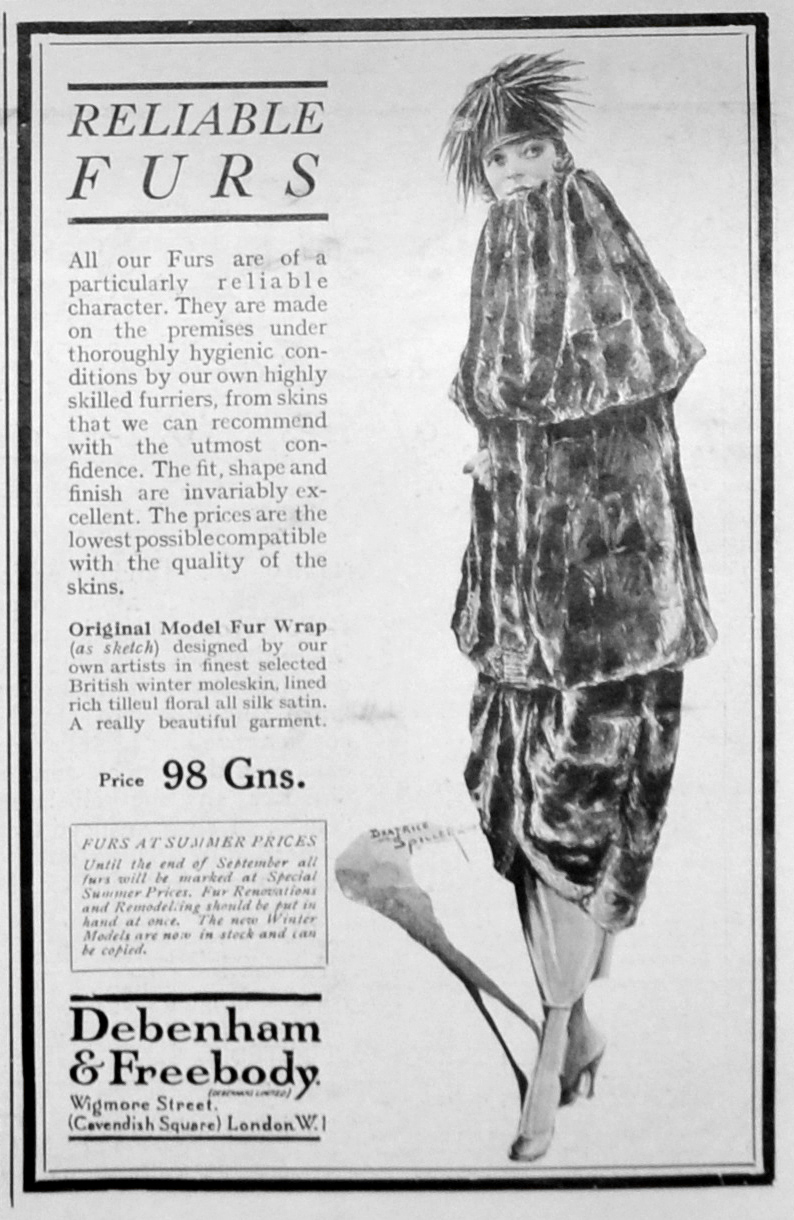 Debenham & Freebody advertisement, from: Illustrated Sporting and Dramatic News, 1921